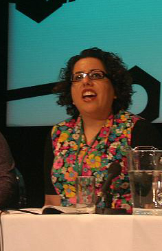 Photo of Tina Gharavi, Filmmaker